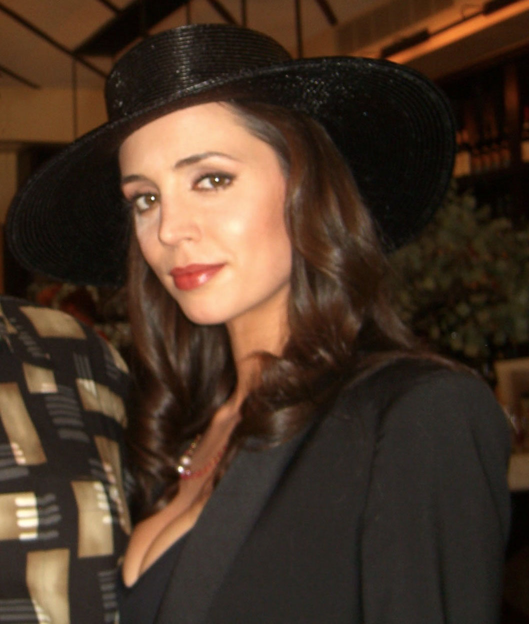 Actress Eliza Dushku, during the June 7, 2011 filming of "One the Fence", the ninth episode of the third season of the American TV series White Collar at 10 Downing, a restaurant in Manhattan's West Village. Photographed by Luigi Novi. This photo is not in the public domain. It may, however, be used, modified and published for any purpose, free of charge, only if the photographer is properly credited, either by linking the photograph to this page, or with an easily visible credit to the photographer placed near the photo in each instance in which it is used. (See licensing information below.) Publication of this photo without this proper attribution constitutes copyright infringement. If you have any questions, you can contact me on my Wikipedia Talk Page.